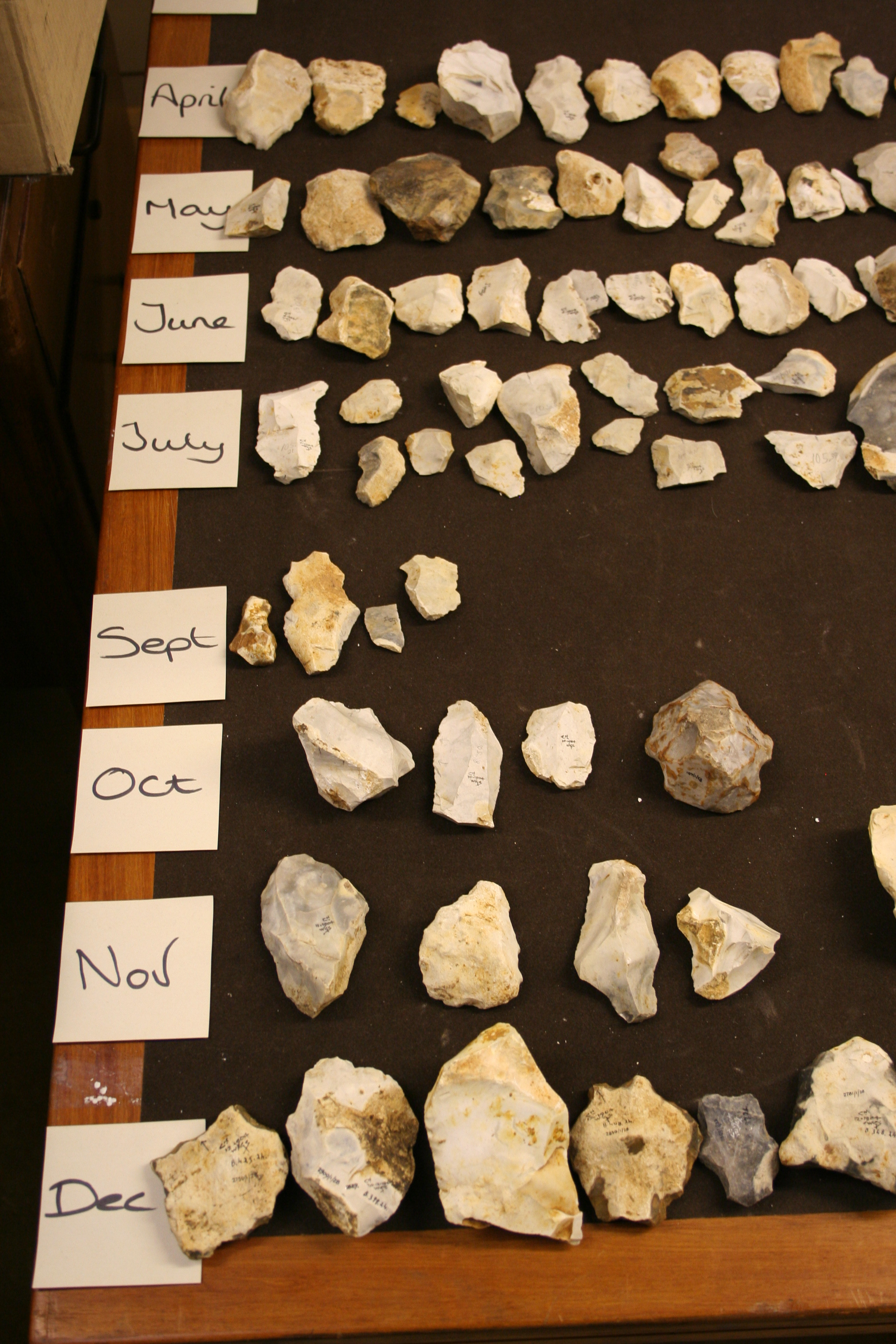 Paleolithic flint finds from Caddington, belonging to the Luton Museum, being re-assessed at Franks House, British Museum, October 2011.